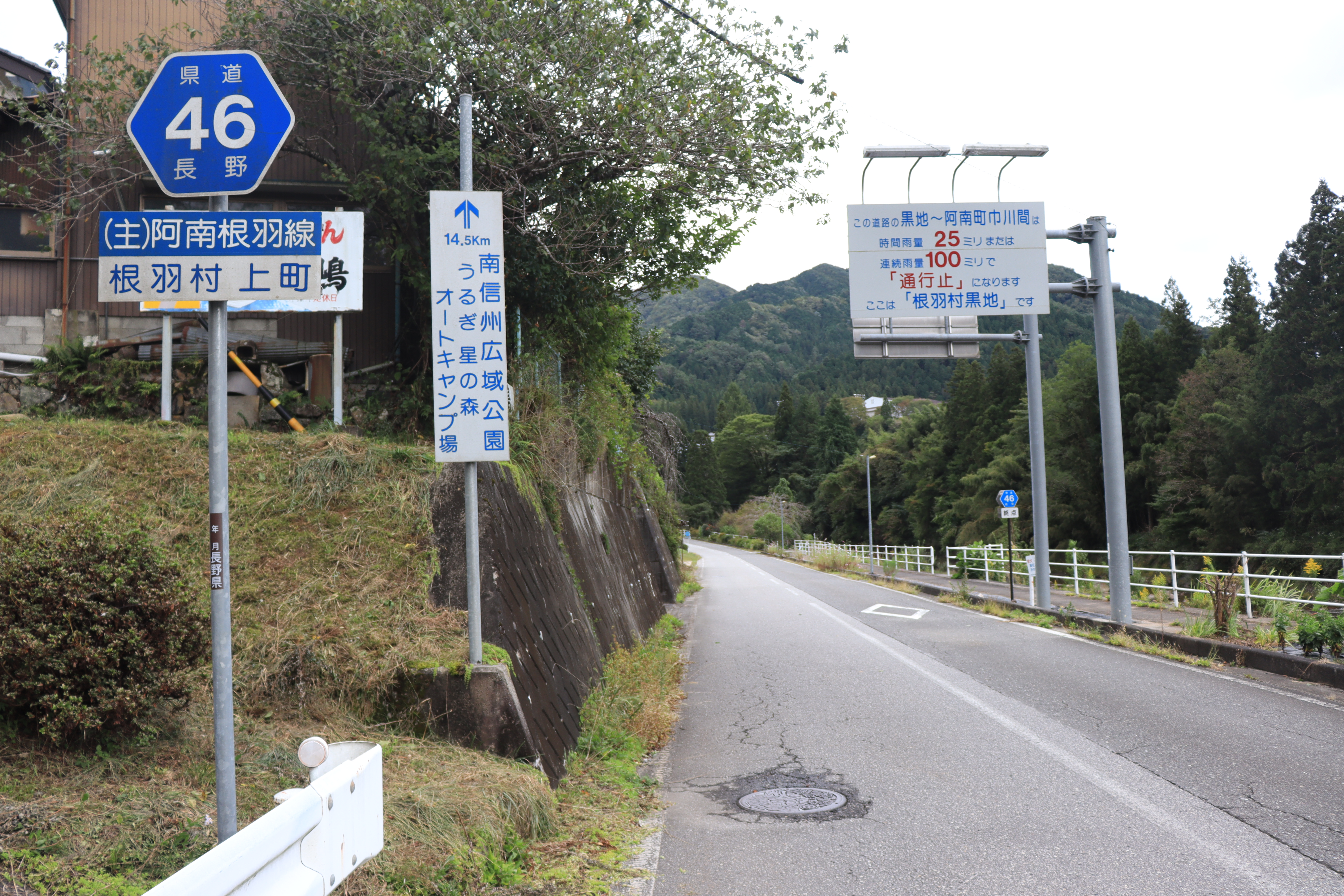 Nagano Prefectural Road Route 46 (Anan-Neba Line) in Kanmachi, Neba, Nagano Prefecture, Japan.